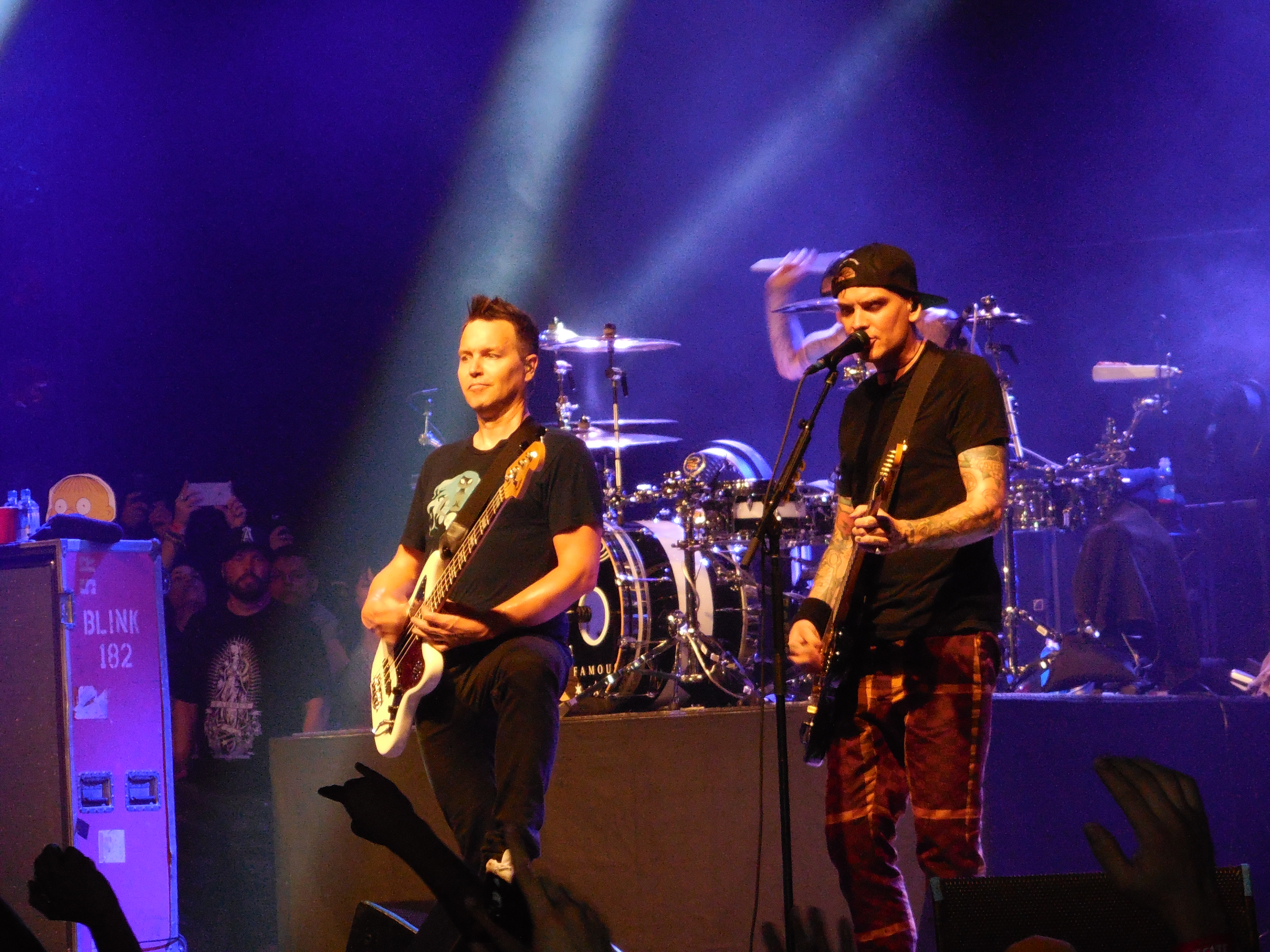 Blink-182 performing March 2, 2015 at the Orange County Fair and Events Center as part of the Musink festival, curated by drummer Travis Barker. This was the band's third performance with singer/guitarist Matt Skiba "filling in" for Tom DeLonge, who had recently exited the group. Mark Hoppus at left, Skiba at Right, with Barker behind Skiba.